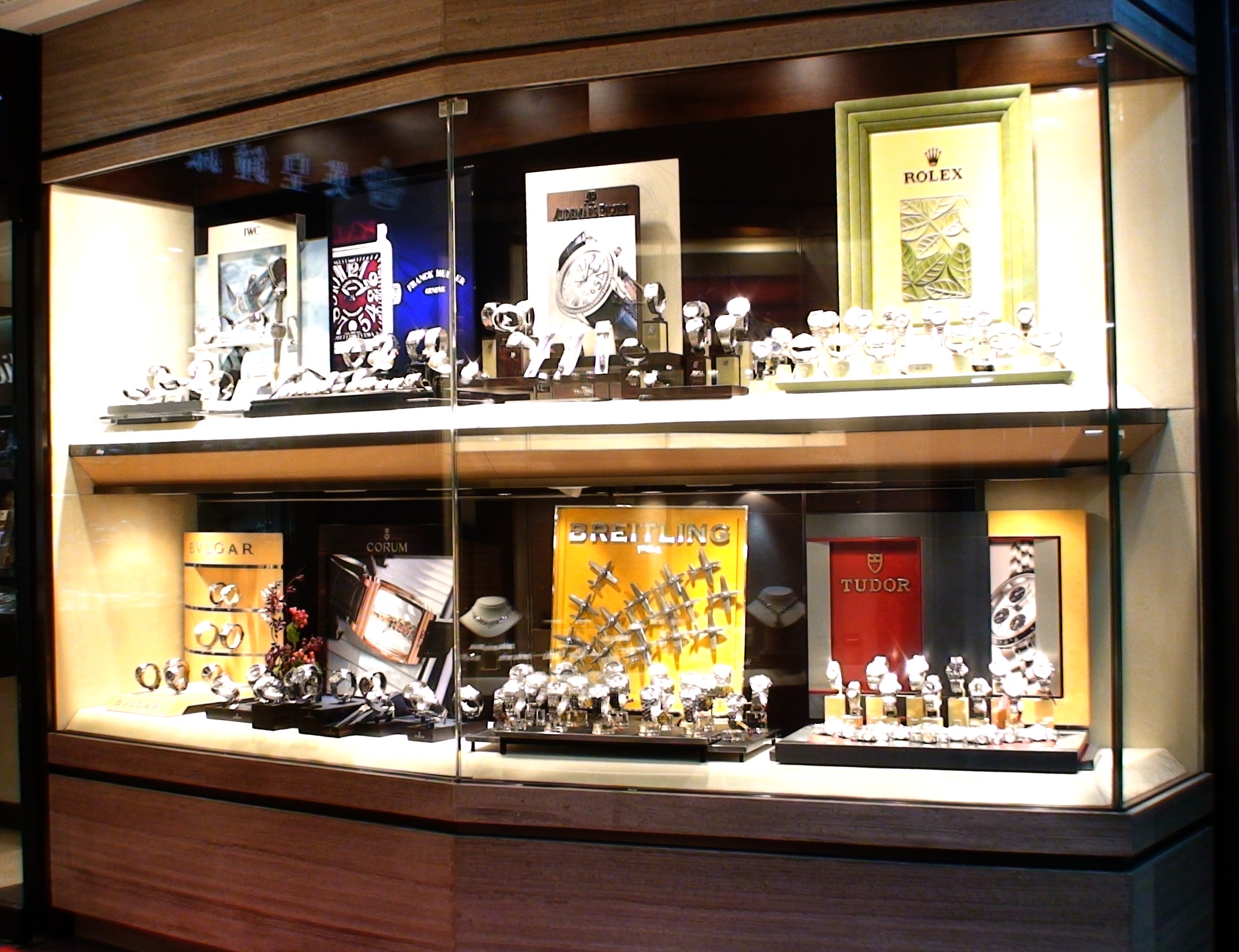 The display case of the Clock and Watch shop in Hong Kong